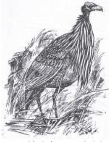 Gini koli is a type of bird found mostly in eastern Africa